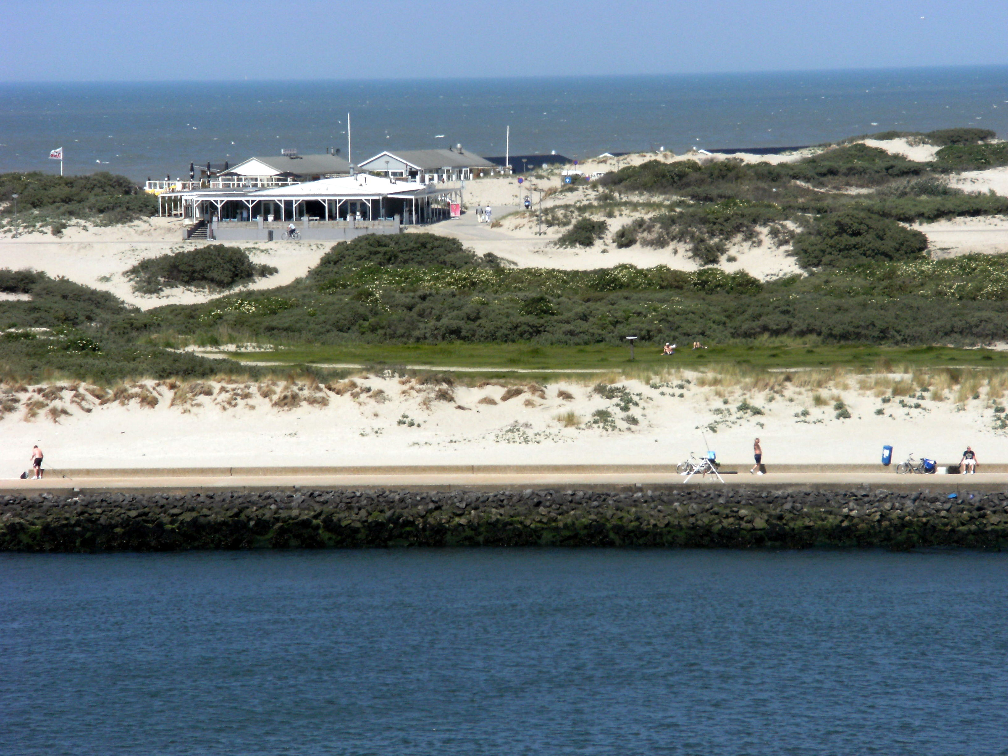 2011 Hoek van Holland